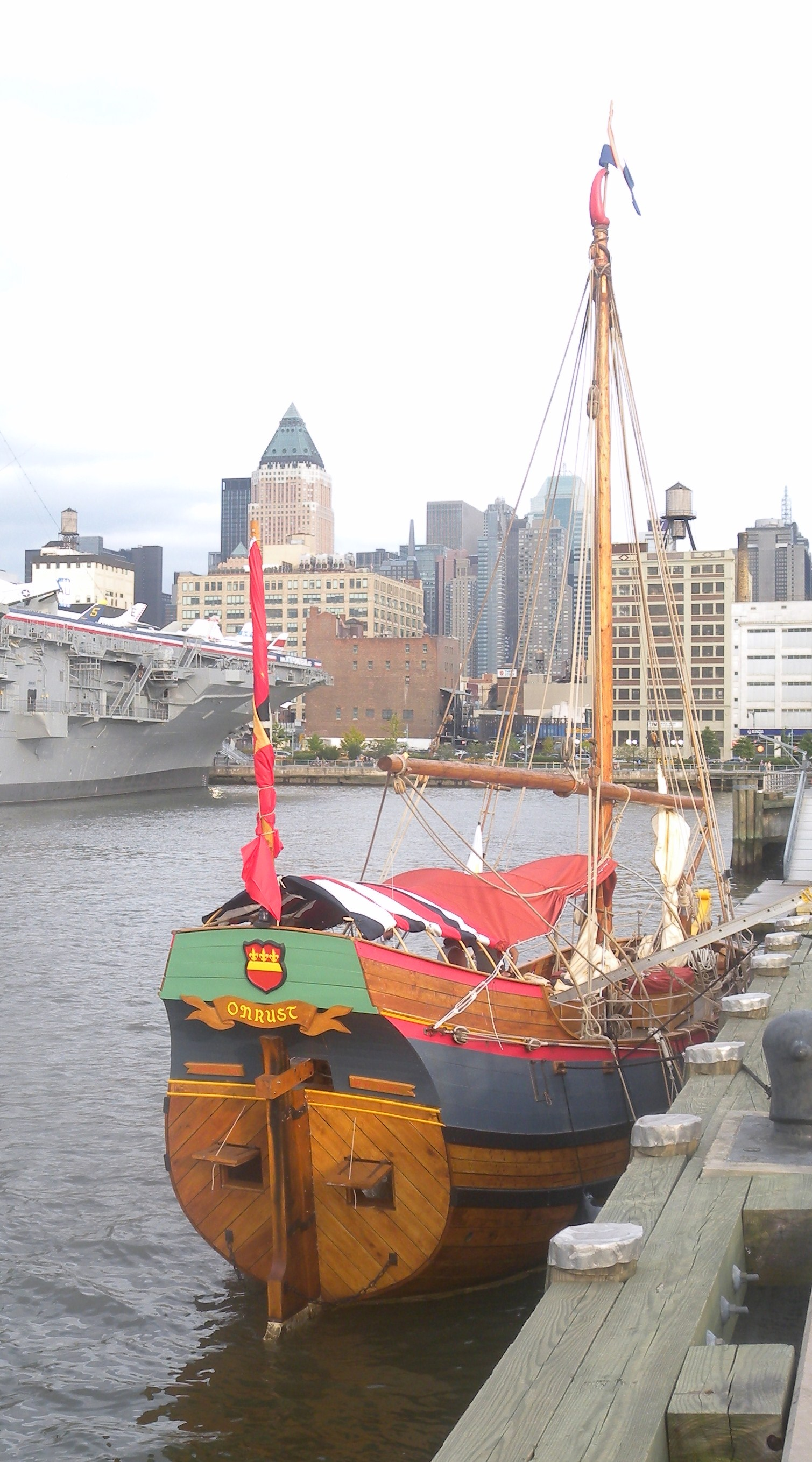 Looking east at Onrust docked at Pier 84 on a partly cloudy afternoon.